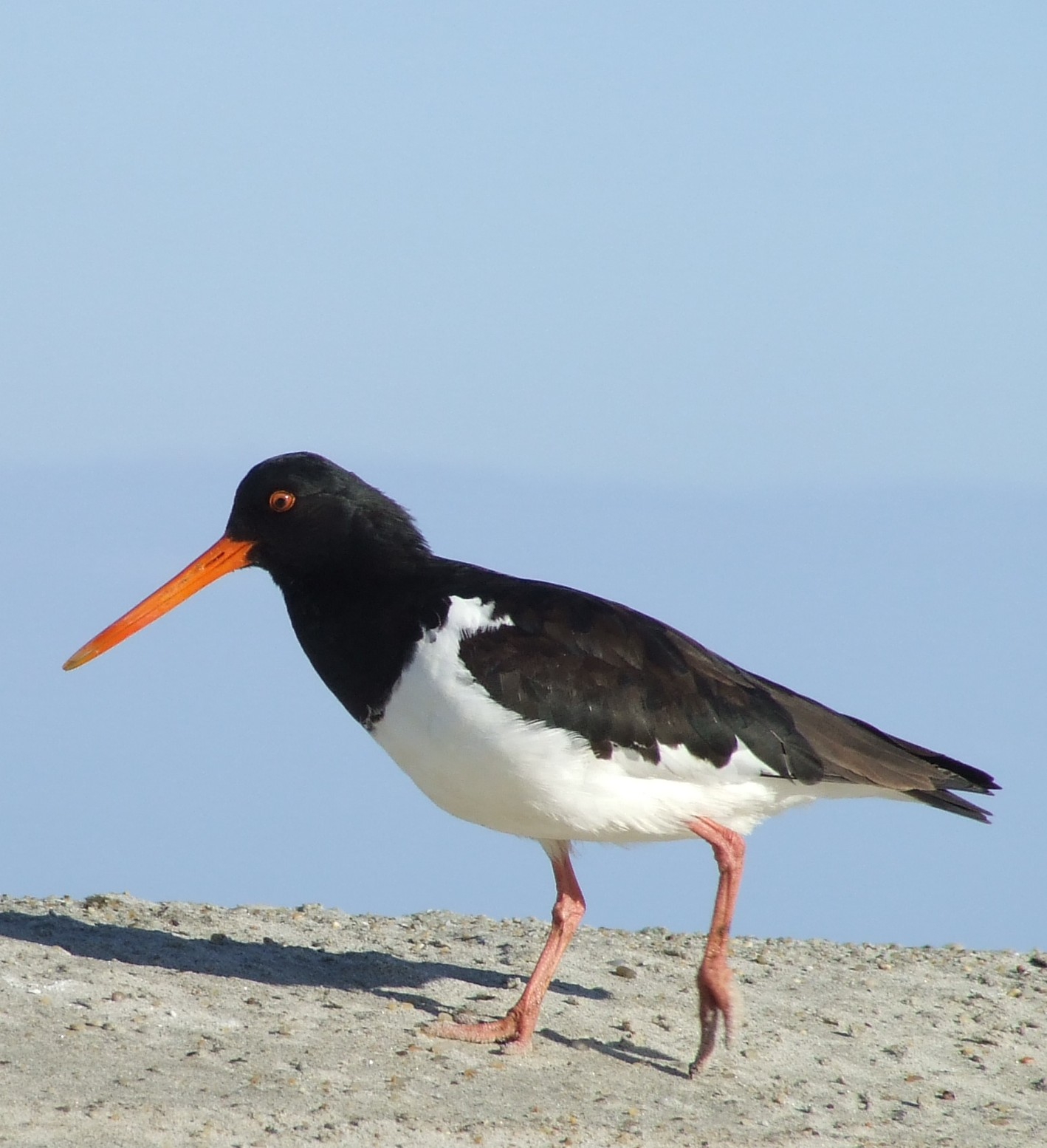 South Island Pied Oystercatcher photographed at Toko Mouth, Otago, New Zealand. Image an edited version of original (i.e. cropped).